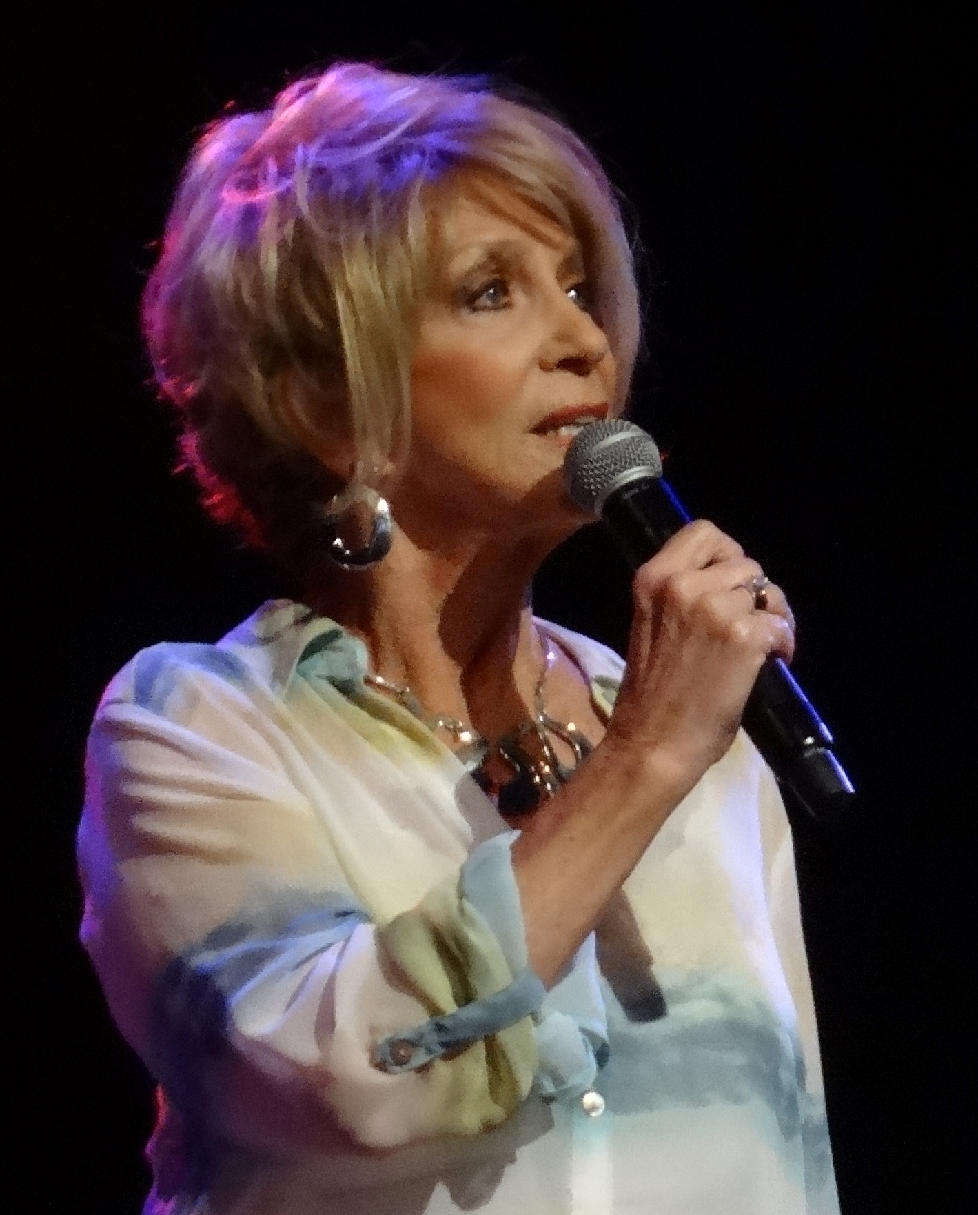 Jeannie Seely Performing on the Grand Ole Opry on July 14, 2015 (Photo: Ron Harman)